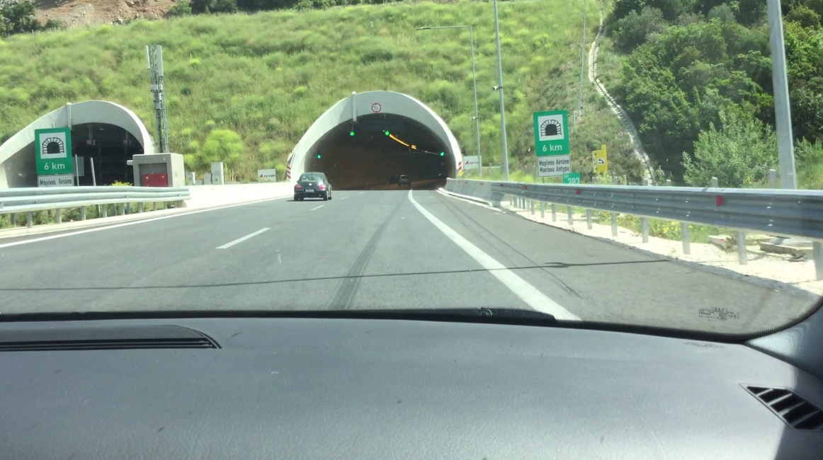 A1 in T2 Tempi Tunnel (6km)